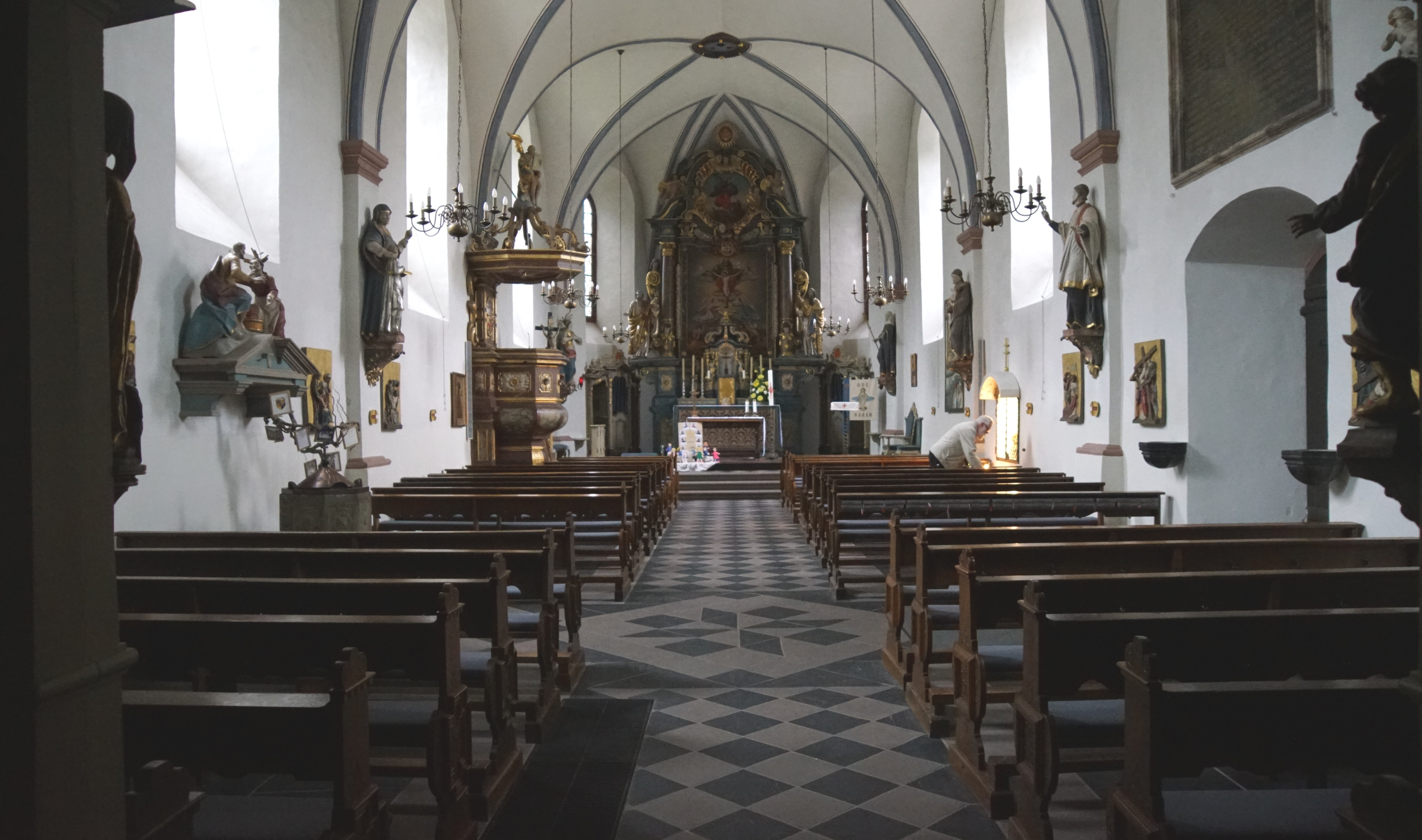 St Gertrudis-Kirche, Oberkirchen, Schmallenberg, Hochsauerland, Germany. Interior looking east.